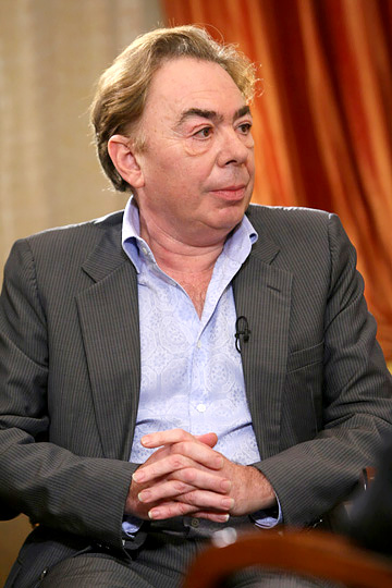 Prime Minister Vladimir Putin met with British composer Andrew Lloyd Webber